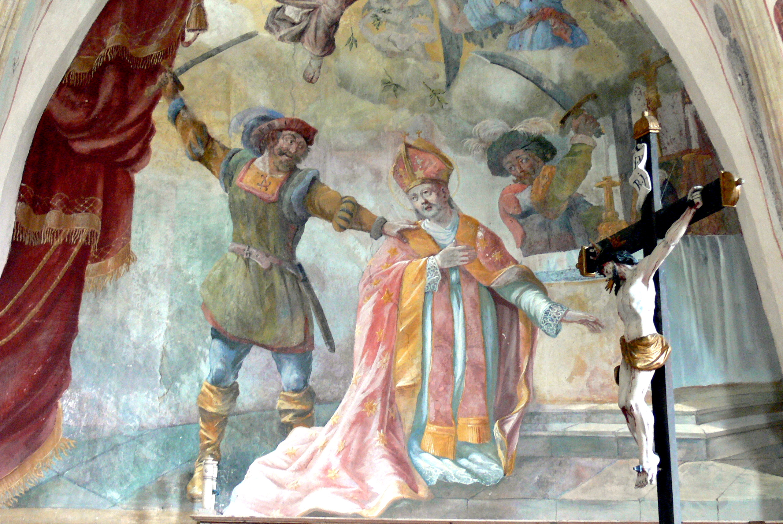 Saint Adolari church ( Tyrol ). Baroque fresco ( 1689 ) - Martyrdom of Saint Adolar.